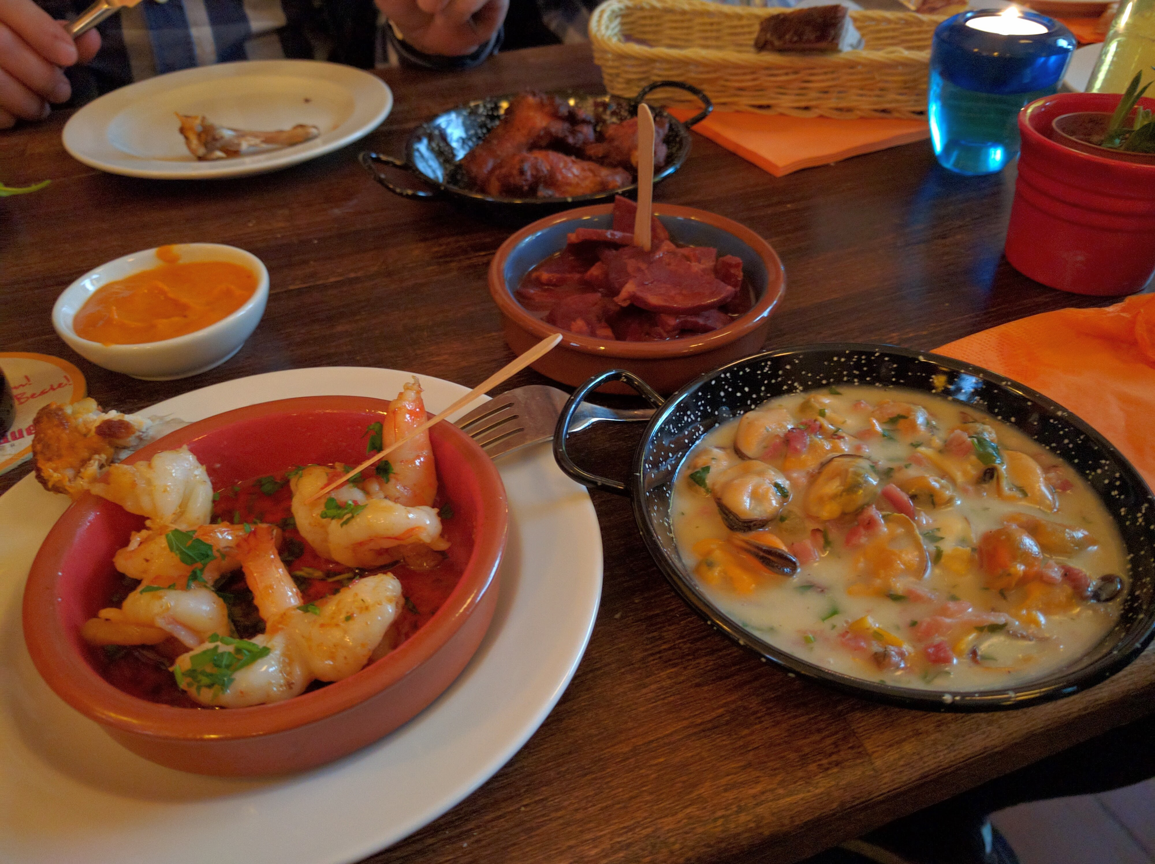 A variety of Spanish "Tapas"